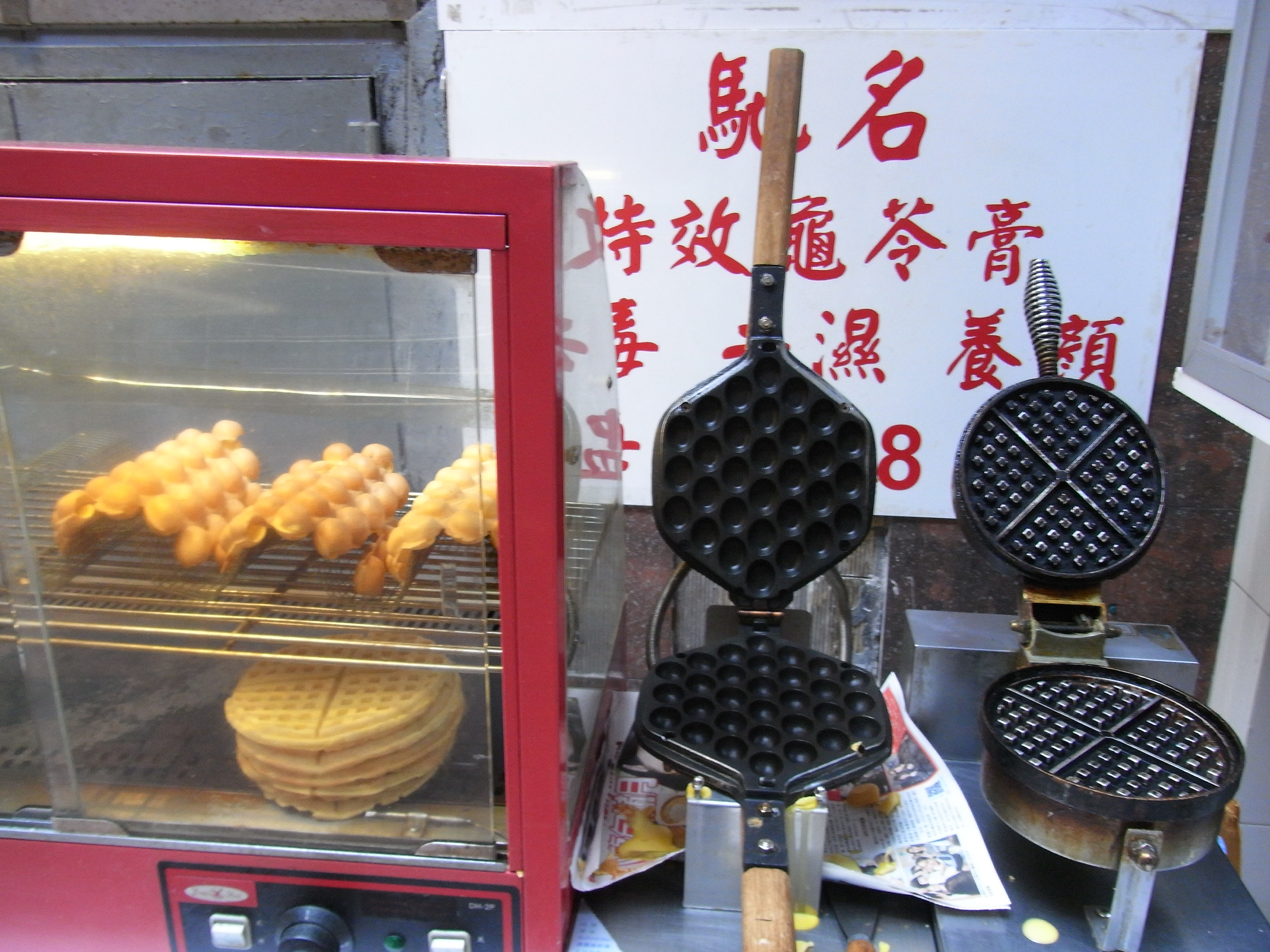 雞蛋仔, Bubble Waffle & tools, Sheung Wan, Hong Kong